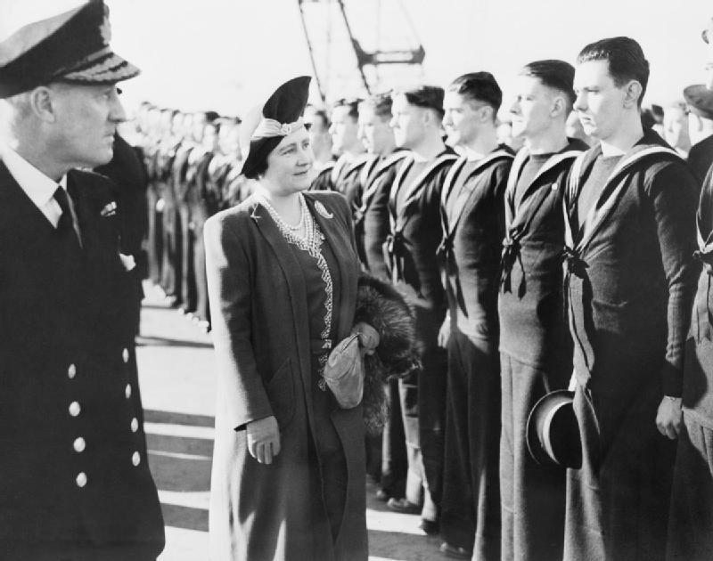 King George VI and Queen Elizabeth visiting HMS IMPLACABLE. King George VI and Queen Elizabeth visiting HMS IMPLACABLE. The Queen talks to Able Seaman George Smart (torpedoman) of Kings Cross, London, while Admiral Whitworth listens to the conversation.